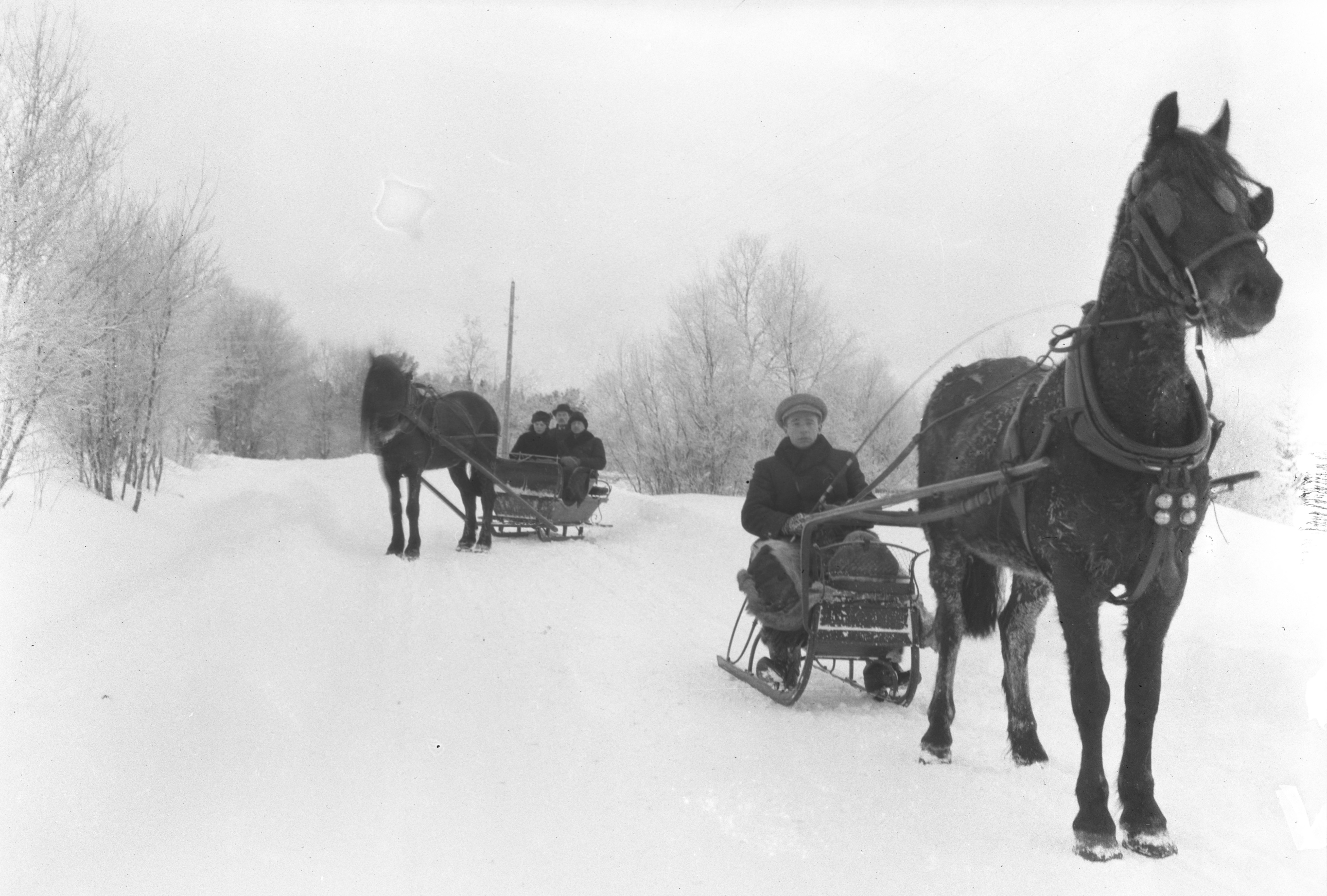 Format: Negativ Dato / Date: Ukjent, ca. 1910 Fotograf / Photographer: Andreas Moe (1883 - 1957) Sted / Place: Trøndelag, Norge Wikipedia: Andreas Moe (1883 - 1957) Wikipedia: Kanefart Eier / Owner Institution: Trondheim byarkiv, The Municipal Archives of Trondheim Arkivreferanse / Archive reference: Tor.H43.B72.AM041